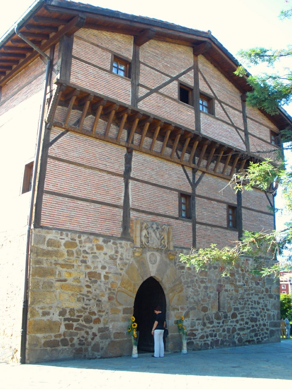 Torre Legazpi, en Zumárraga